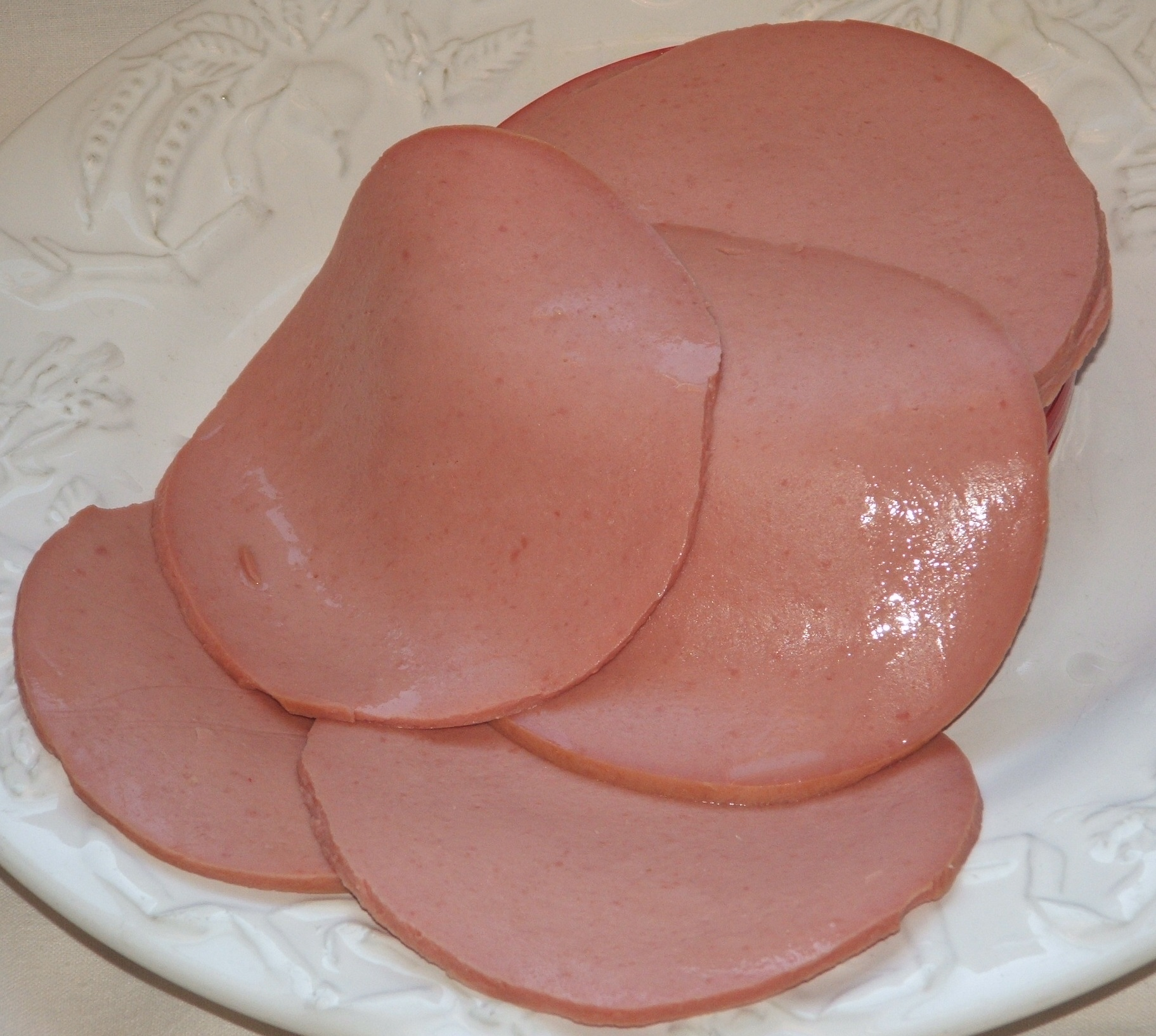 Bologna by Bar-S Foods, Phoenix AZ (USA)